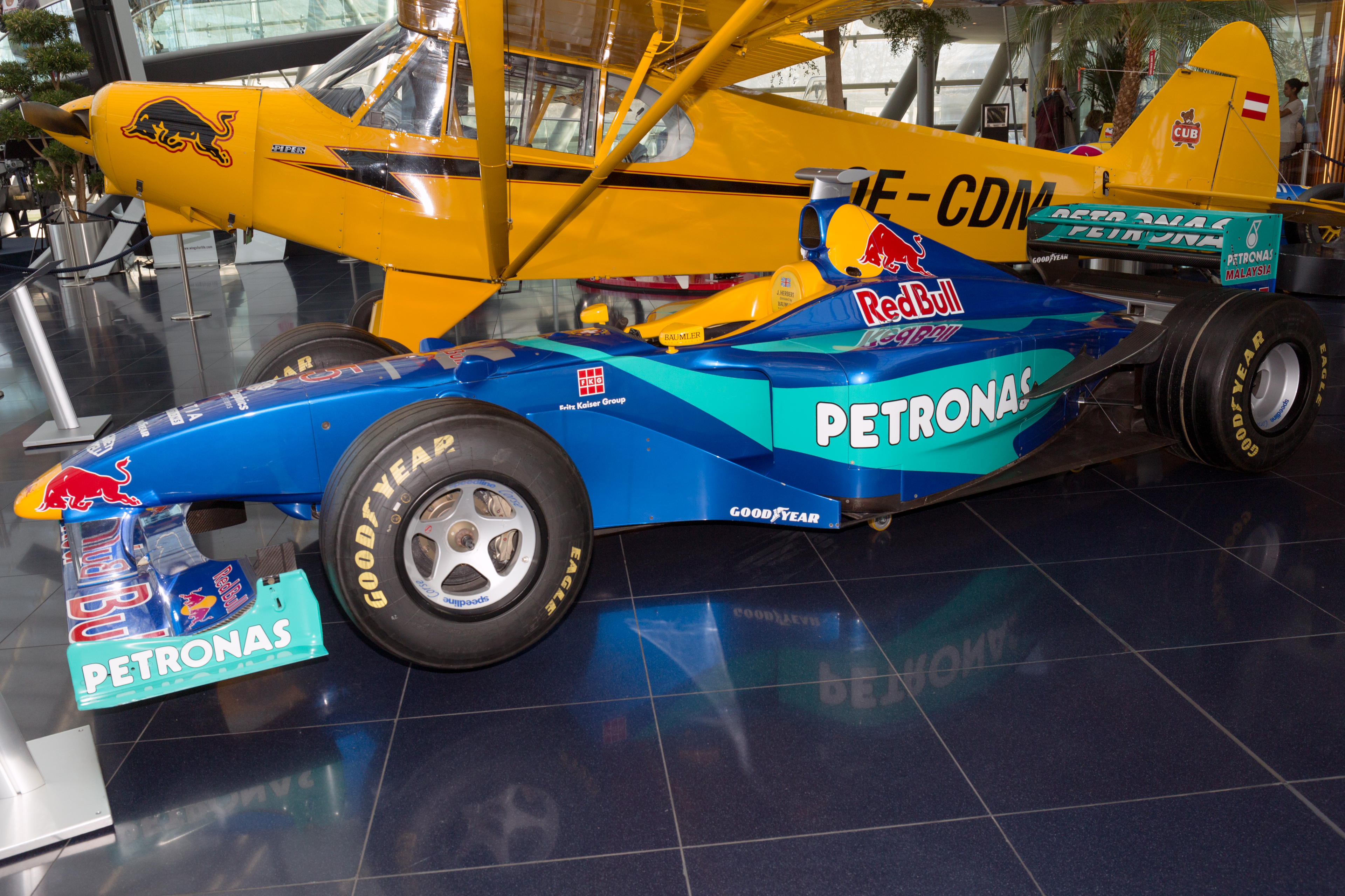 Hangar-7: Sauber C17